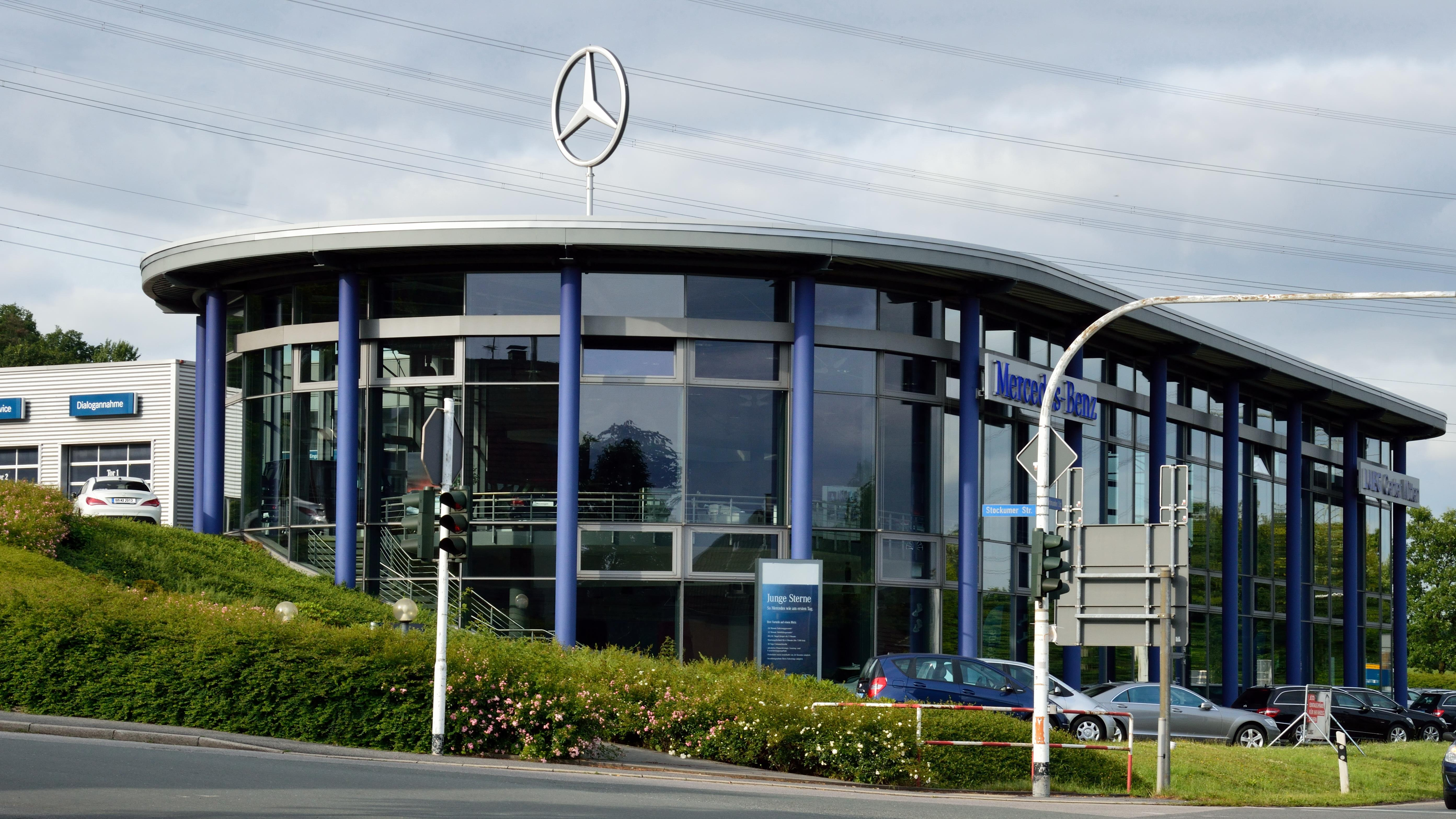 Car dealership Lueg Center Witten in Witten, Germany